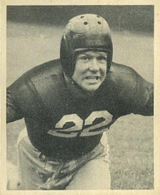 American football player Duke Iverson on a 1948 Bowman card.